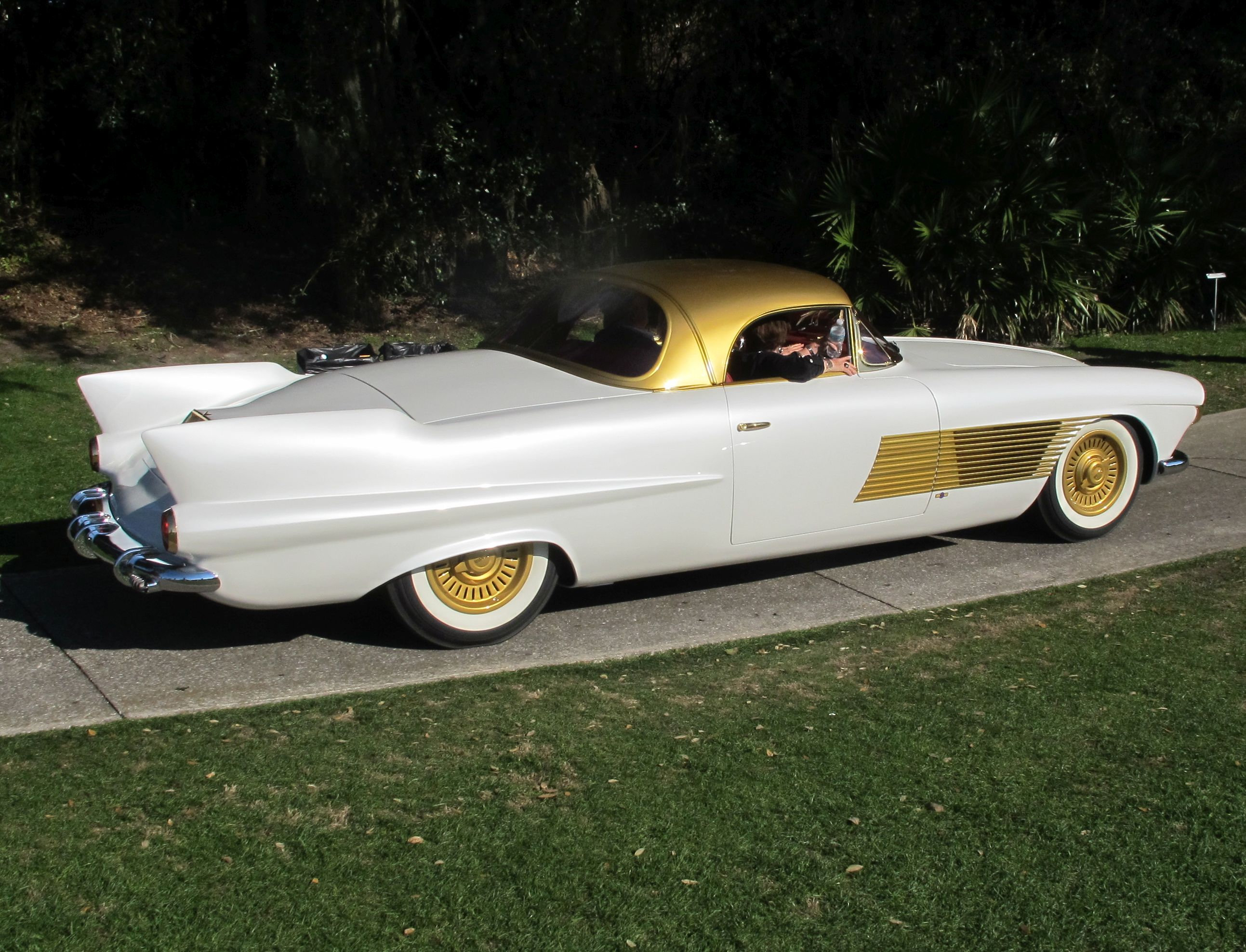 This custom 1955 Cadillac was designed by Harry Birdsall and built for Joe Mascari of New York. Rocco Motto of Carrozzeria Motto (Turin, Italy) made the body.